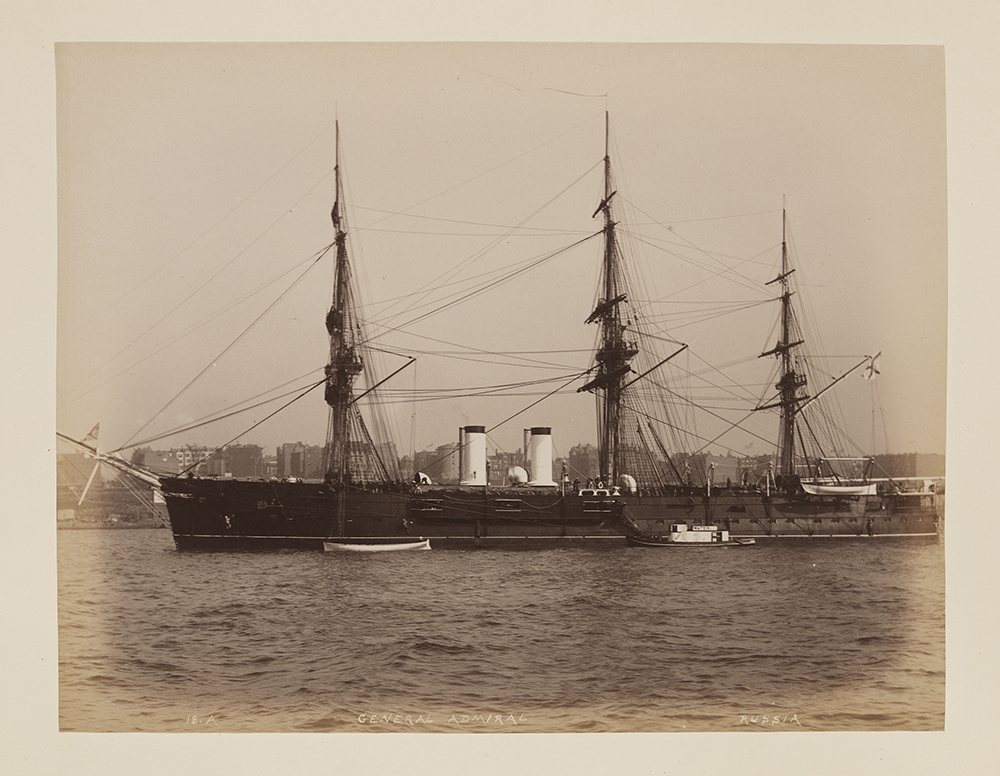 Title: General Admiral, Russia Creator: Unknown Date: April 27, 1893 Part Of: Columbian Naval Parade Place: New York Physical Description: 1 photographic print: albumen, part of 1 volume (48 albumen prints); 17 x 22 cm on 28 x 34 cm mount File: ag1982_0031_26_opt.jpg Rights: Please cite DeGolyer Library, Southern Methodist University when using this file. A high-resolution version of this file may be obtained for a fee. For details see the web page. For other information, . For more information, View the full series: naval parade/field/all/mode/all/conn/and/cosuppress/ View North America: Photographs, Manuscripts, and Imprints